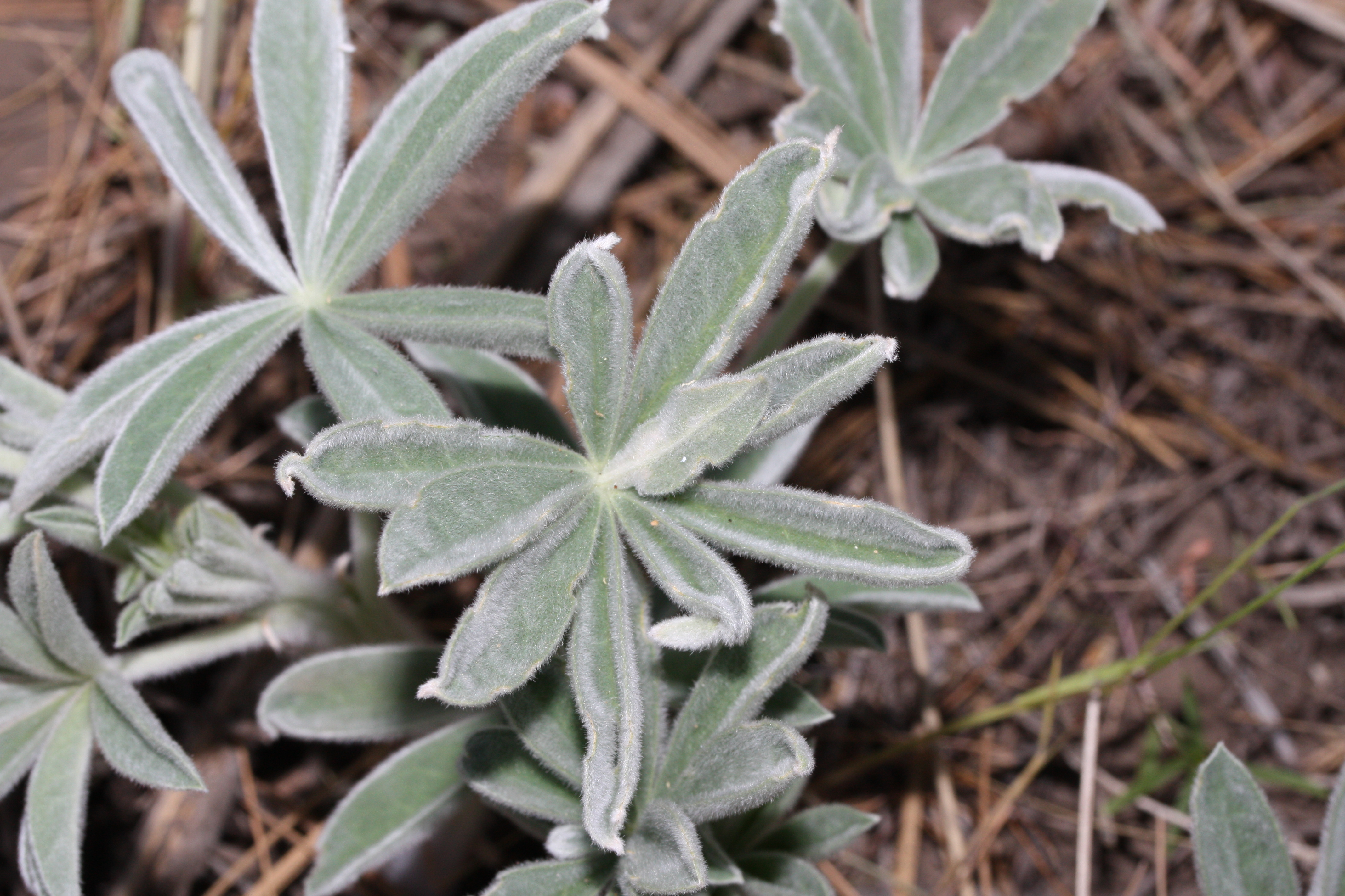 Velvet Lupine